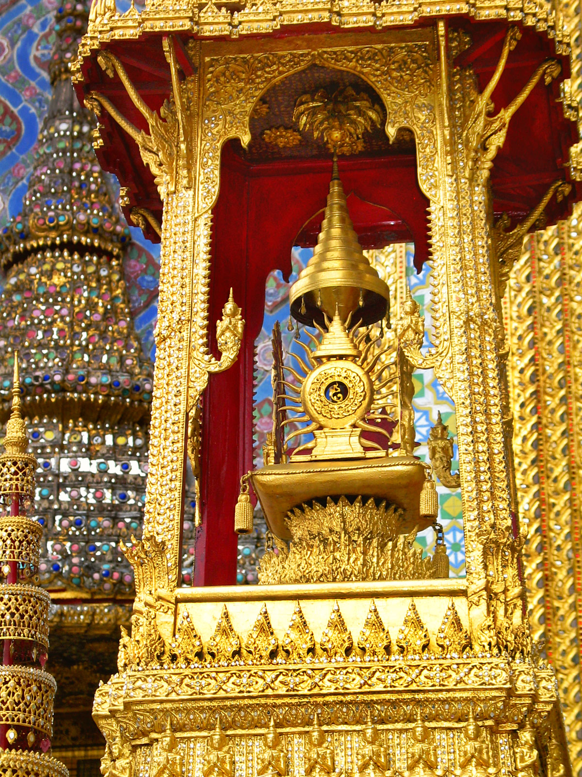 Monument (busabok) with insignia of King Rama IX within Wat Phra Kaew (Bangkok, Thailand), showing the Octogonal Throne surmounted by a discus with Thai numeral 9 inside and a seven-tiered Umbrella of State.